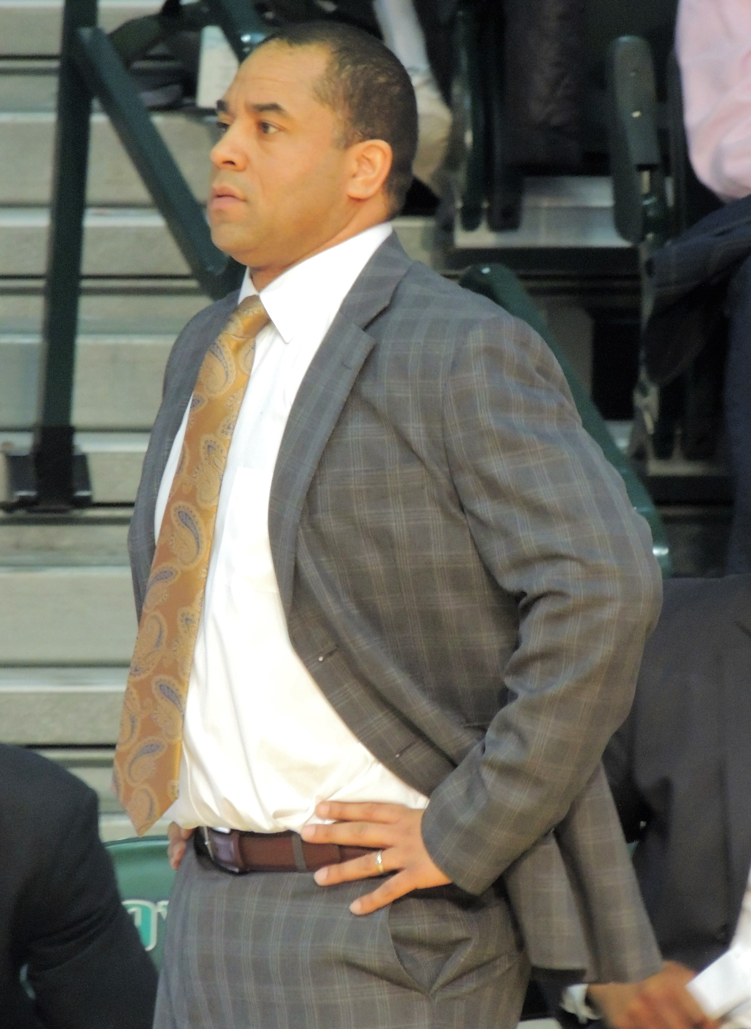 Loyola Greyhounds coach G.G. Smith at a February, 2017 game